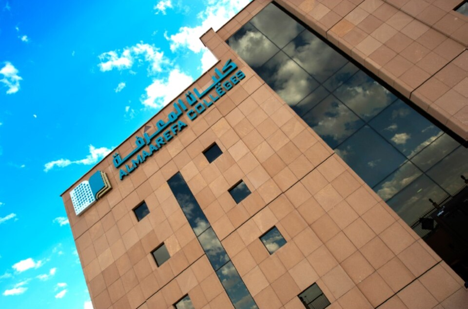 AlMaarefa Building view 1